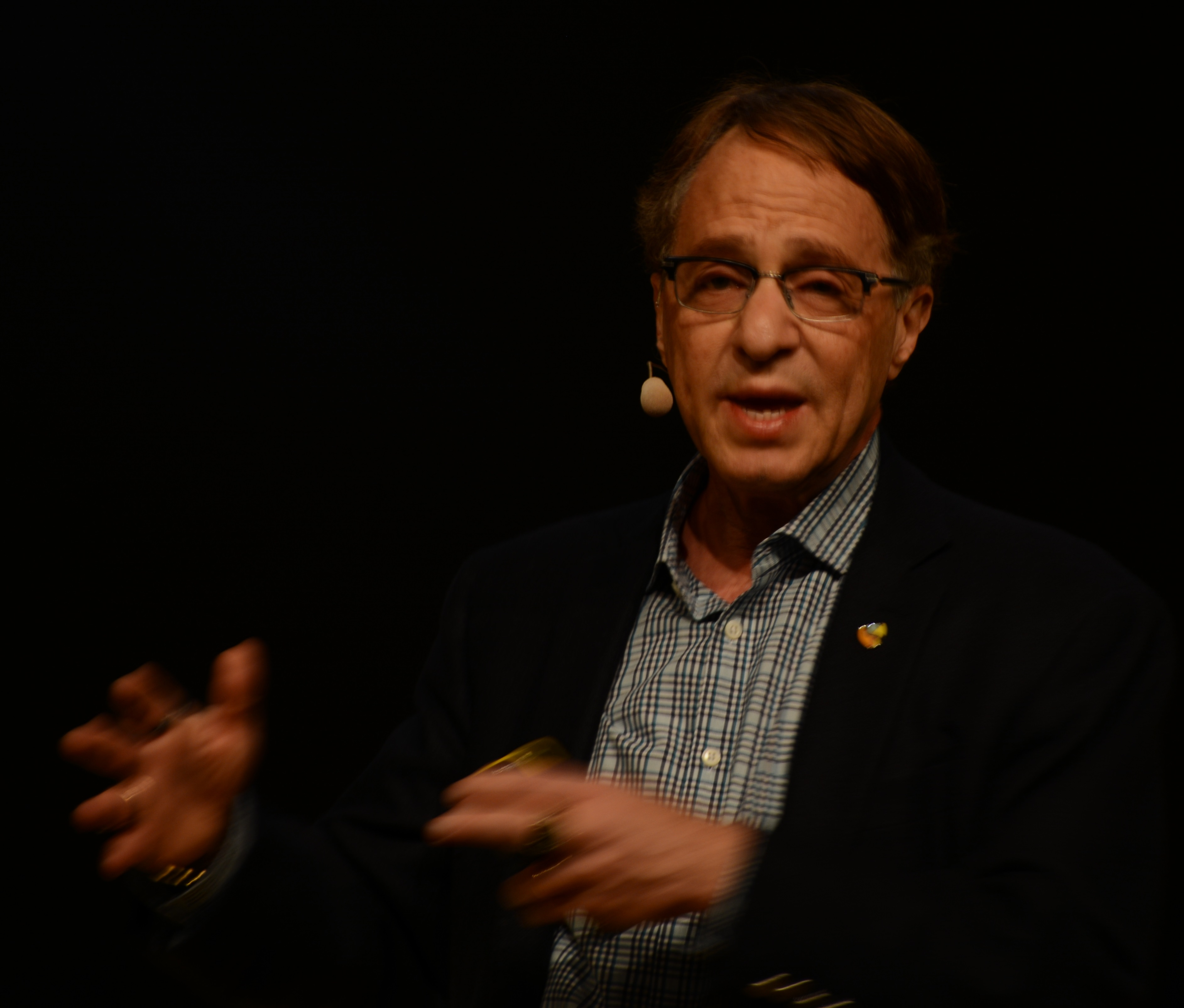 Ray Kurzweil at Nobel Week Dialogue 2015.